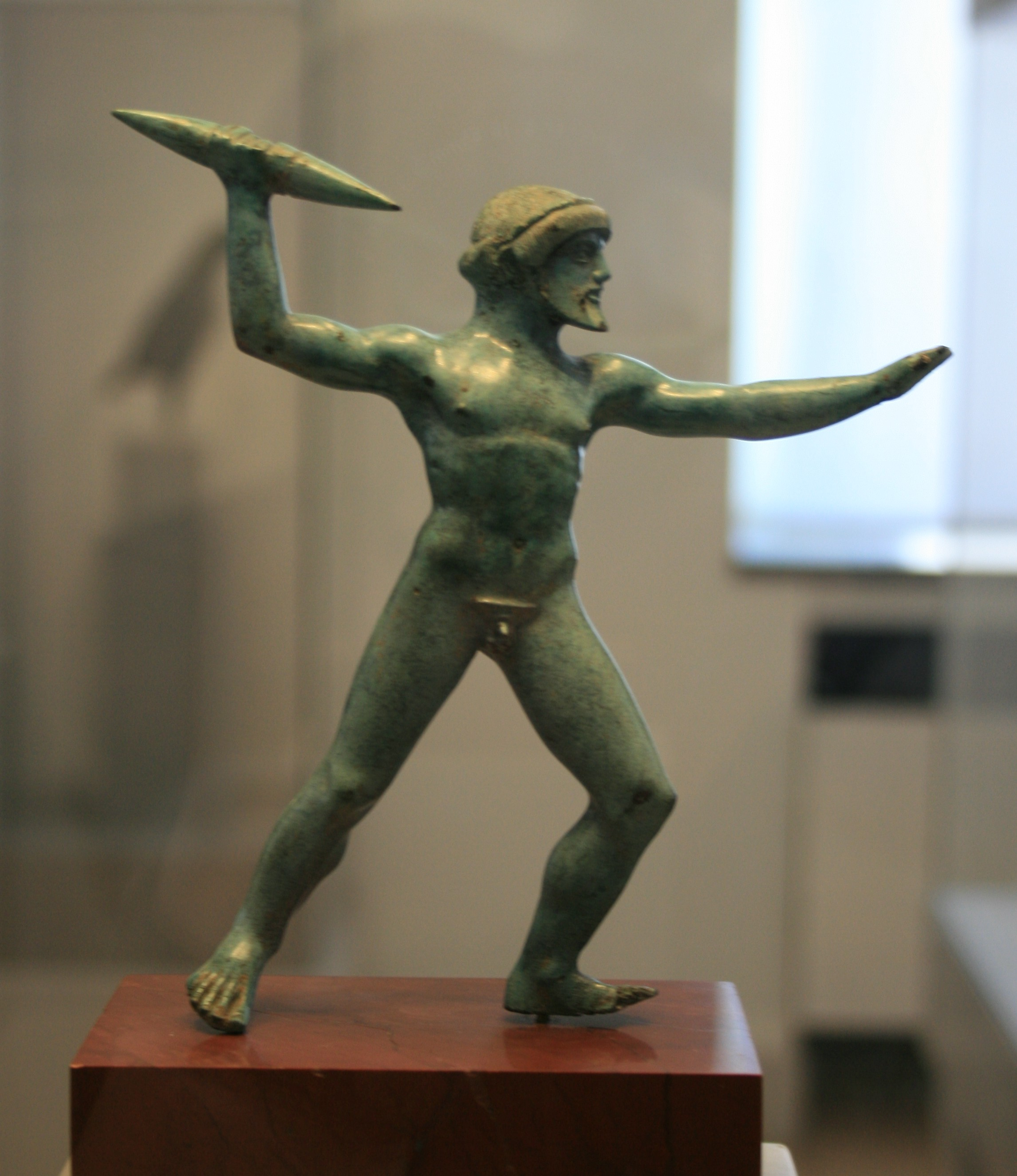 the so-called "Dodona Zeus"